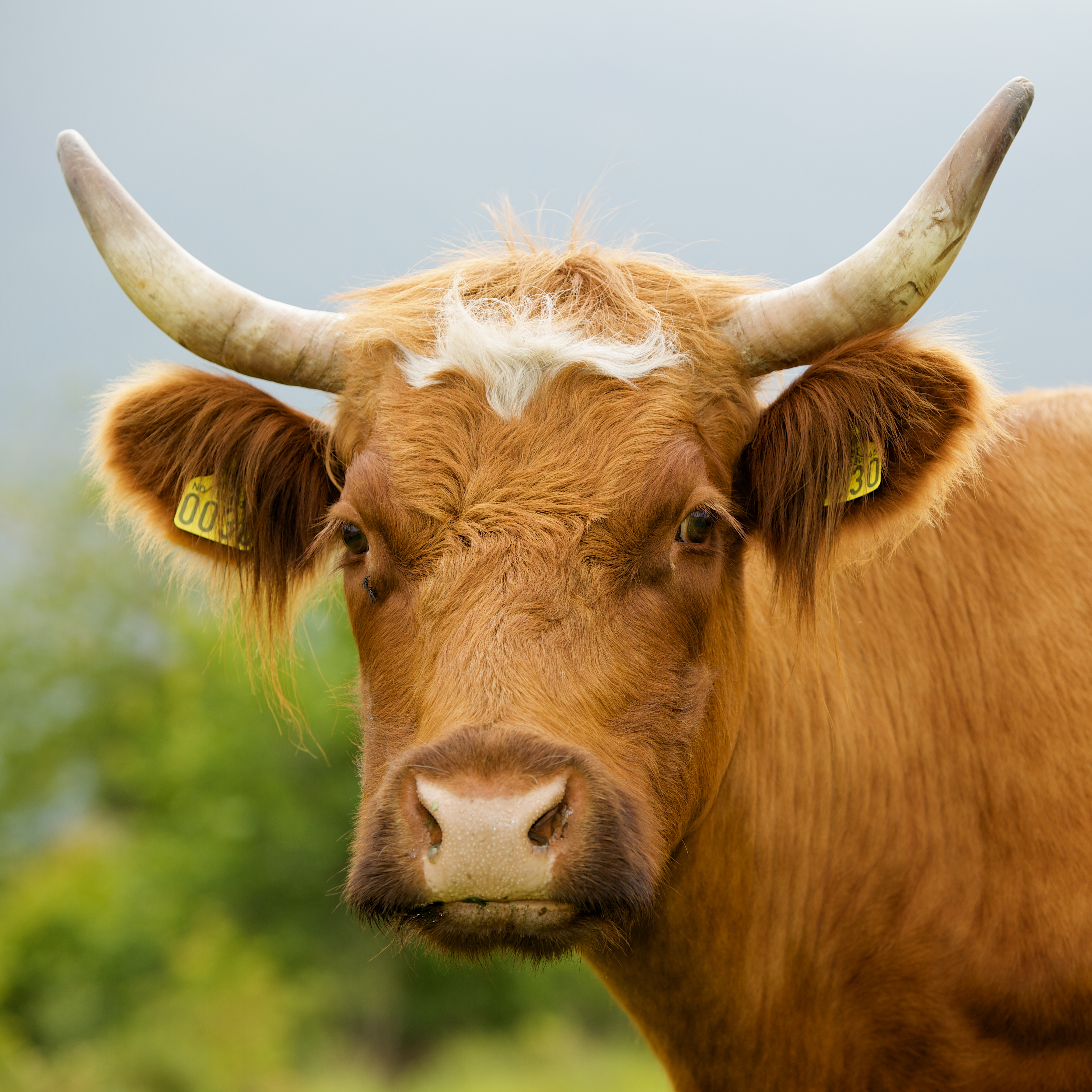 Cow portrait, Norway. Breed is most likely Norwegian Red.